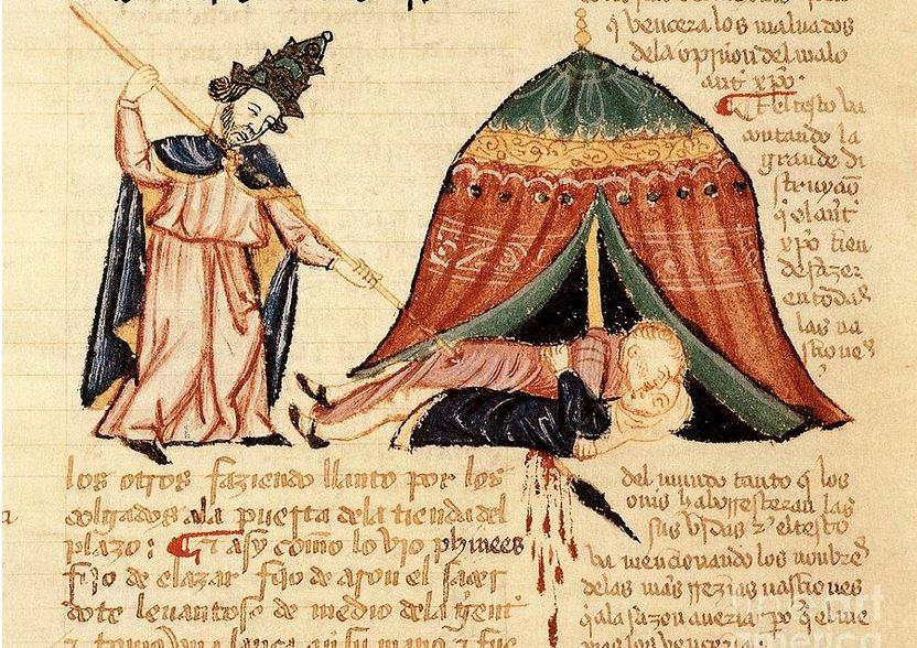 The Zeal of Phinehas.(Illumination from the Alba Bible)